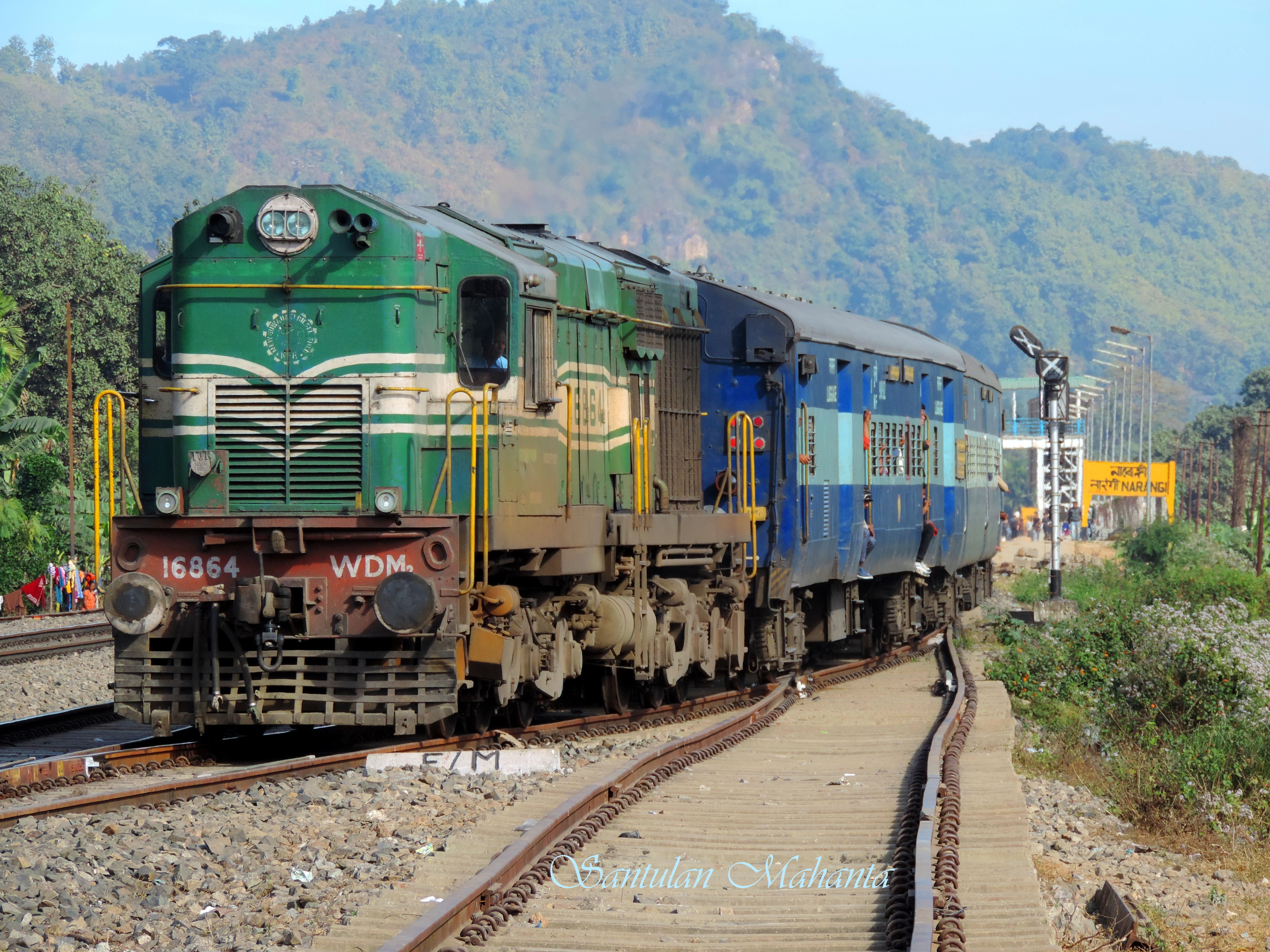 Ex-GOC, now NGC WDM2 16864 leading 15718 Mariani-Guwahati Intercity Express exits Narangi station. Loco still bears the GOC livery